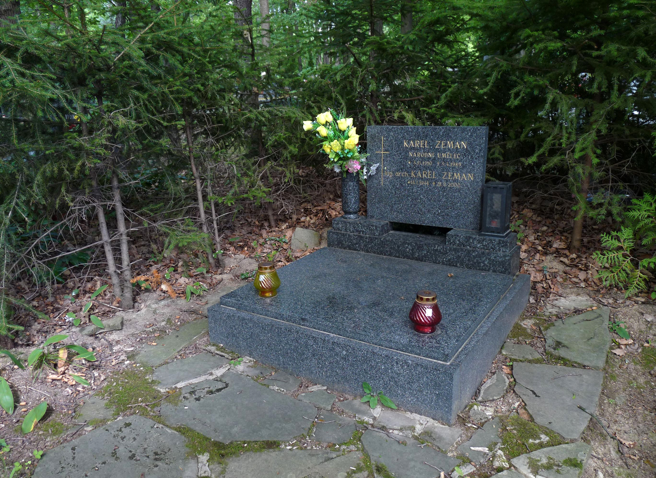 Woodland cemetery in the town of Zlín, Zlín Region, Czech Republic: grave of the director Karel Zeman (1910–1989) and his son, the architect Karel Zeman (1944–2002).